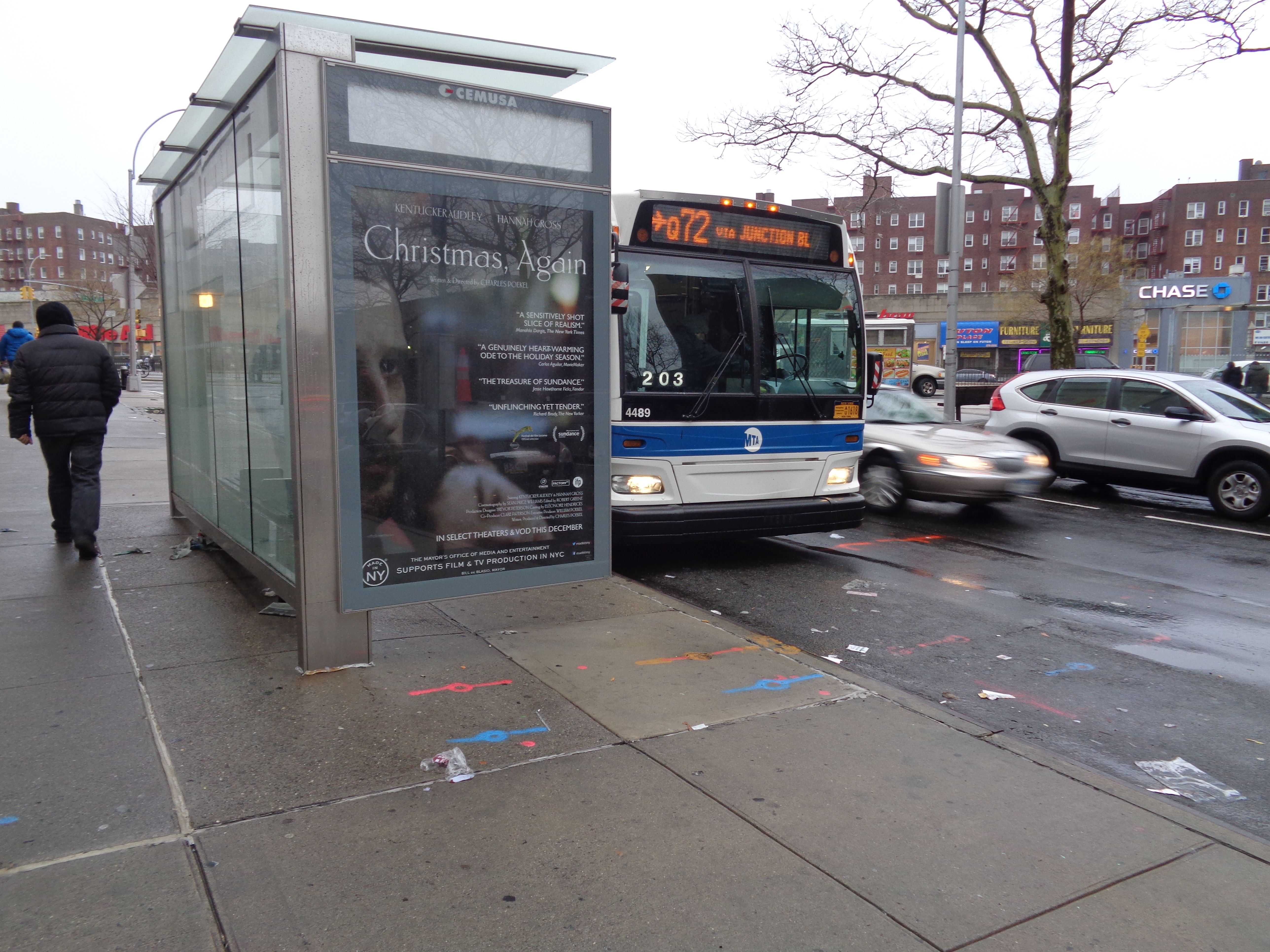 A Q72 bus entering northbound service adjacent to the Rego Center in Rego Park, Queens